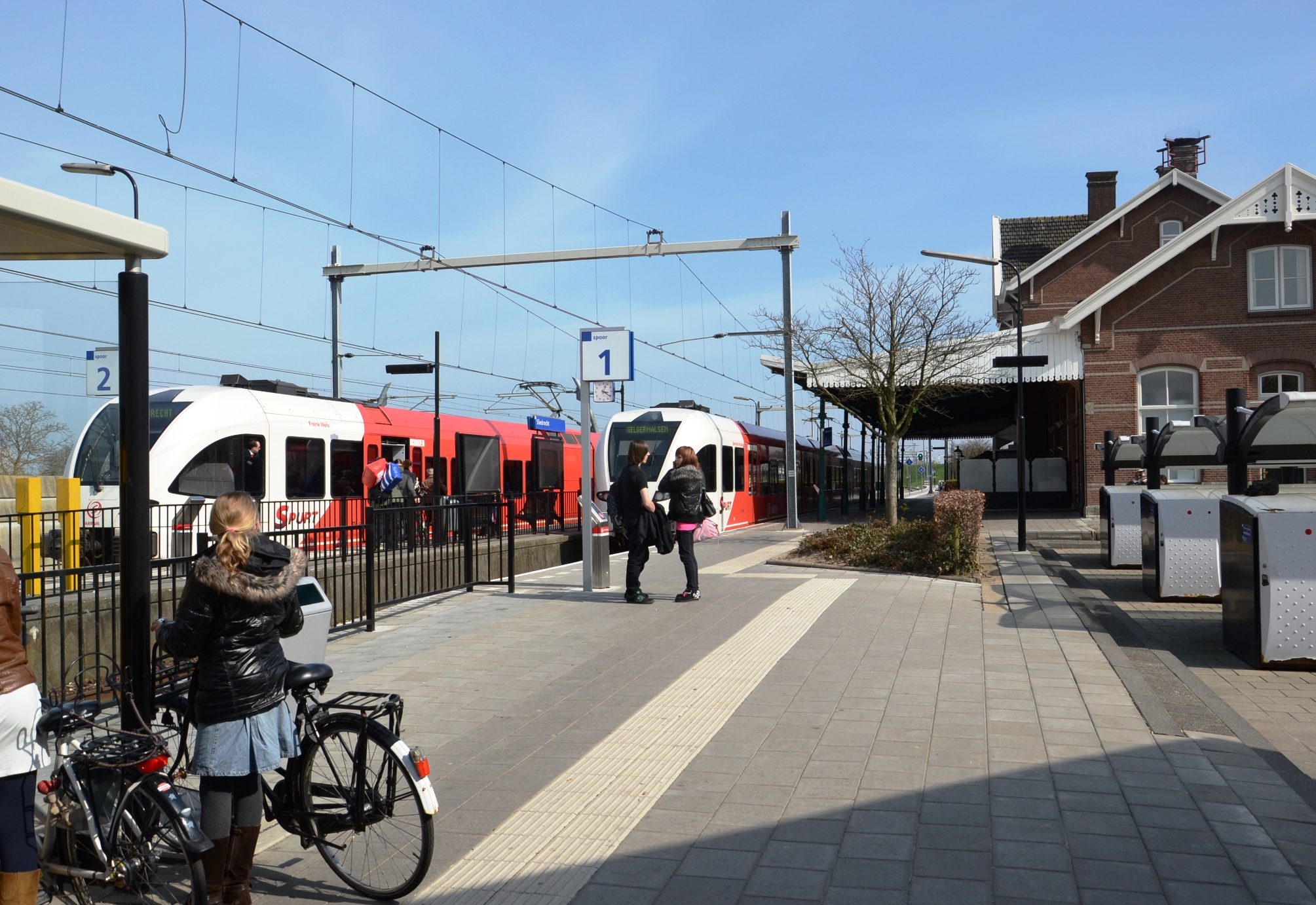 Railway station Sliedrecht, The Netherlands. Two trains from Arriva.